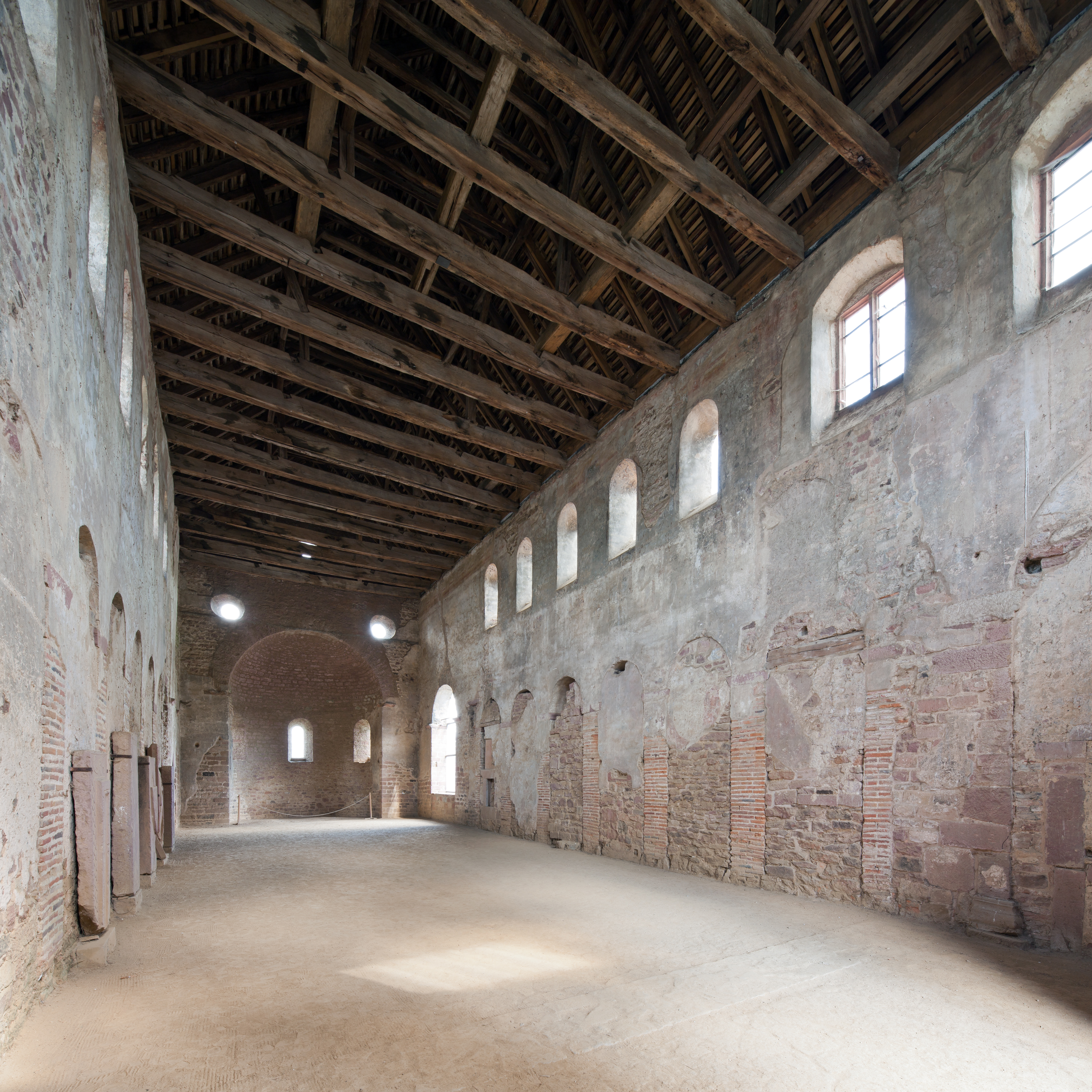 Michelstadt-Steinbach: Einhardsbasilika (Einhard Basilica), interior as seen from the northwest